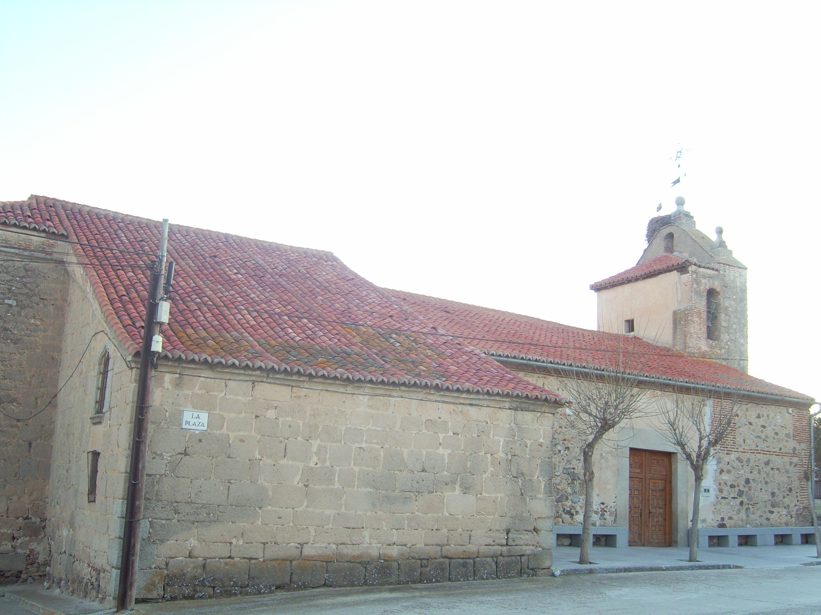 Church of Saint John baptist in Pozanco (Ávila)